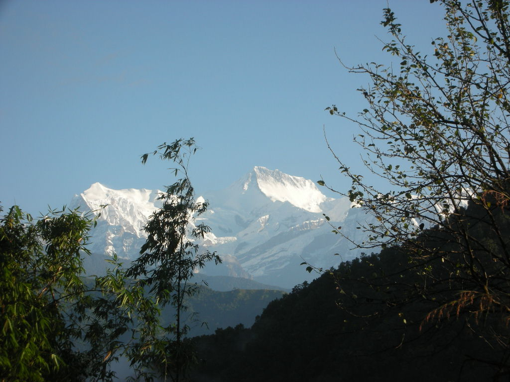 Annapurna IV (left), Annapurna II (center). Morning View from Sunpadali,Kaski.